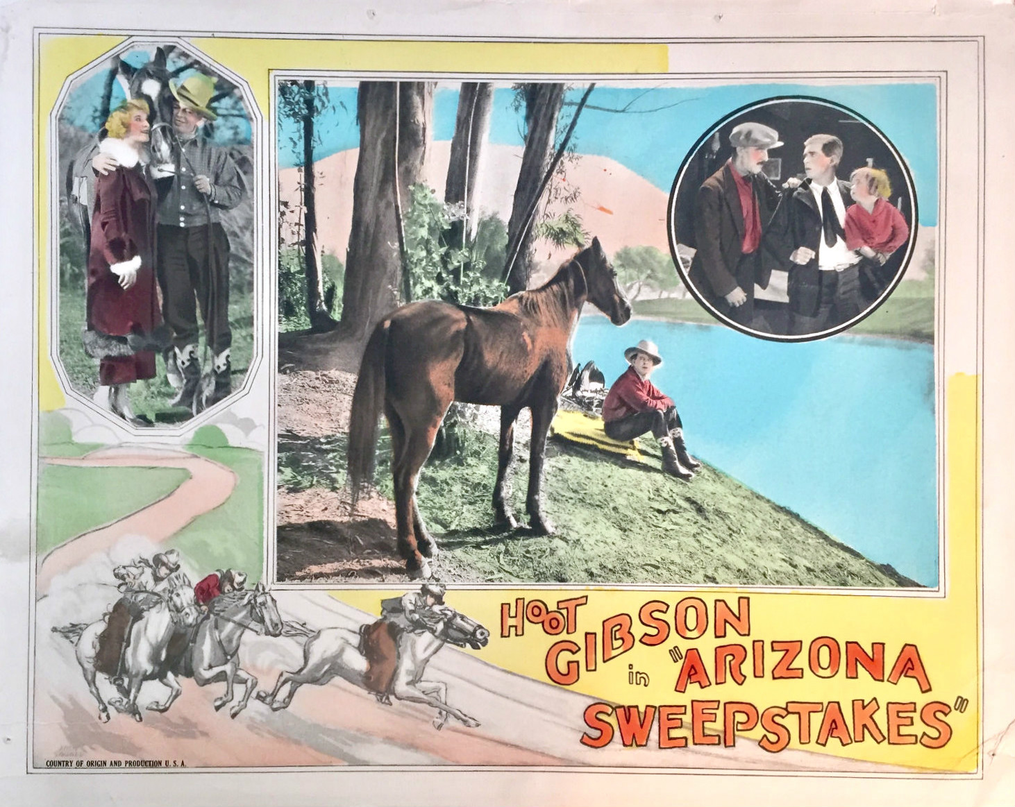 Lobby card for the American western film Arizona Sweepstakes (1926). There are no copyright marks. At bottom left is Country of origin and production USA.